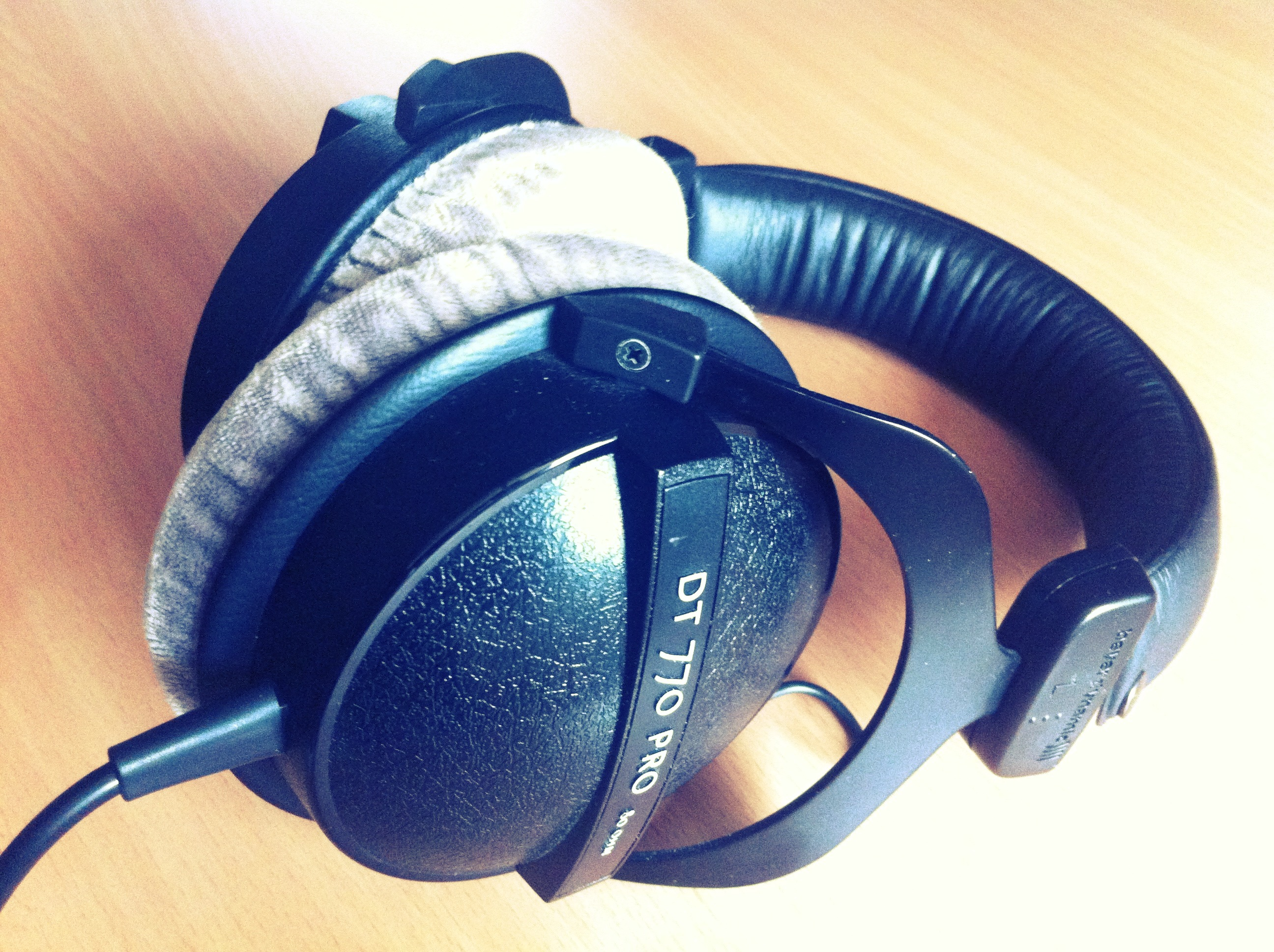 beyerdynamic DT 770 PRO Studio quality headphones